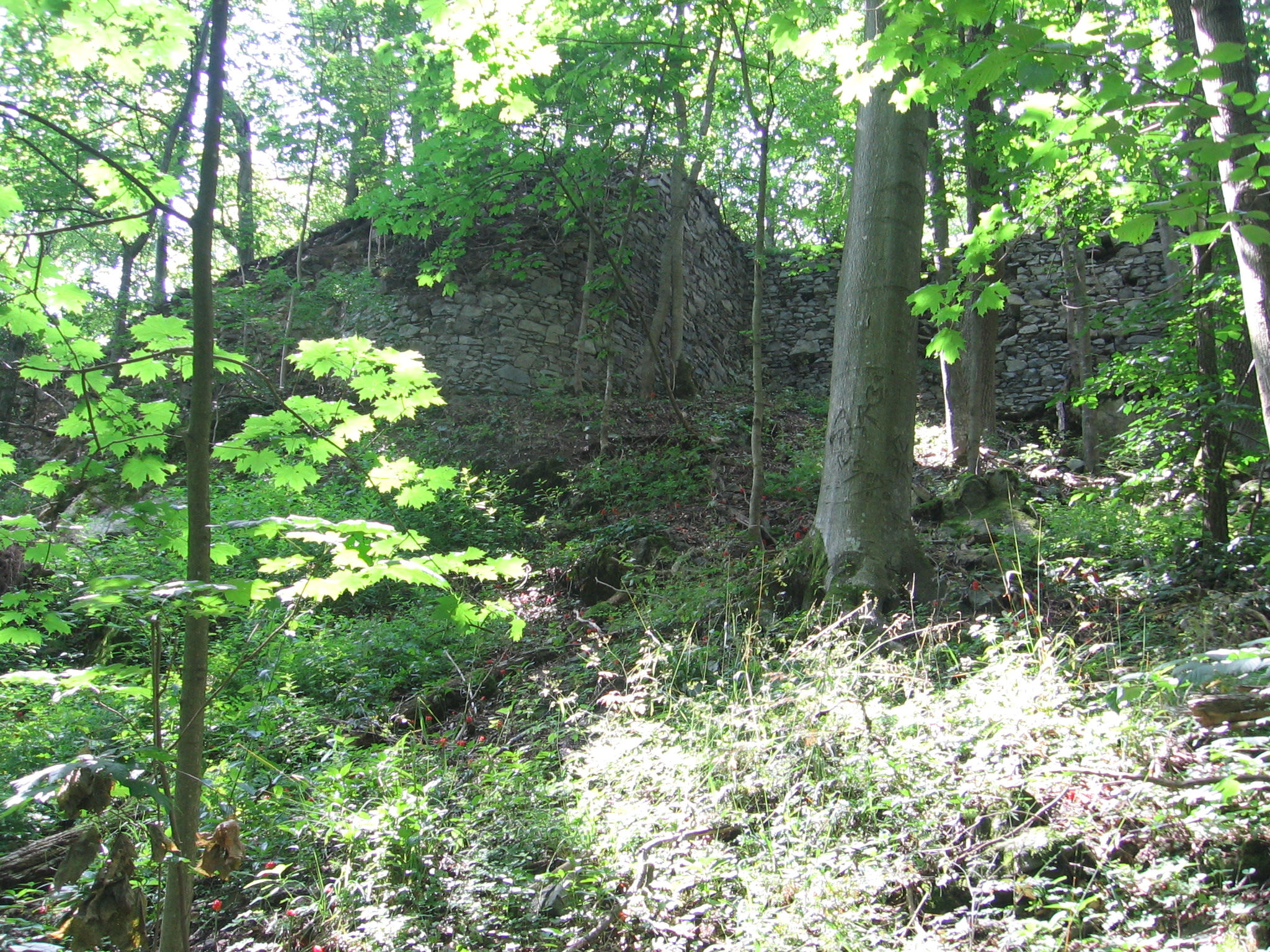 Castle (ruin) Nový Herštejn - view for outside